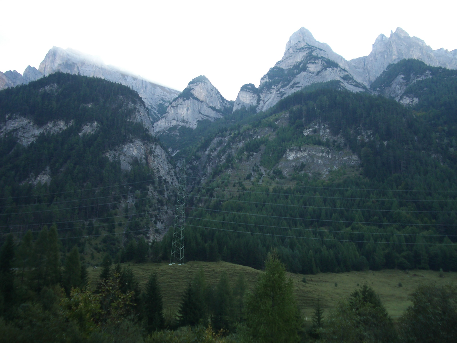 Taminatal SG, Switzerland self-made, September 2006